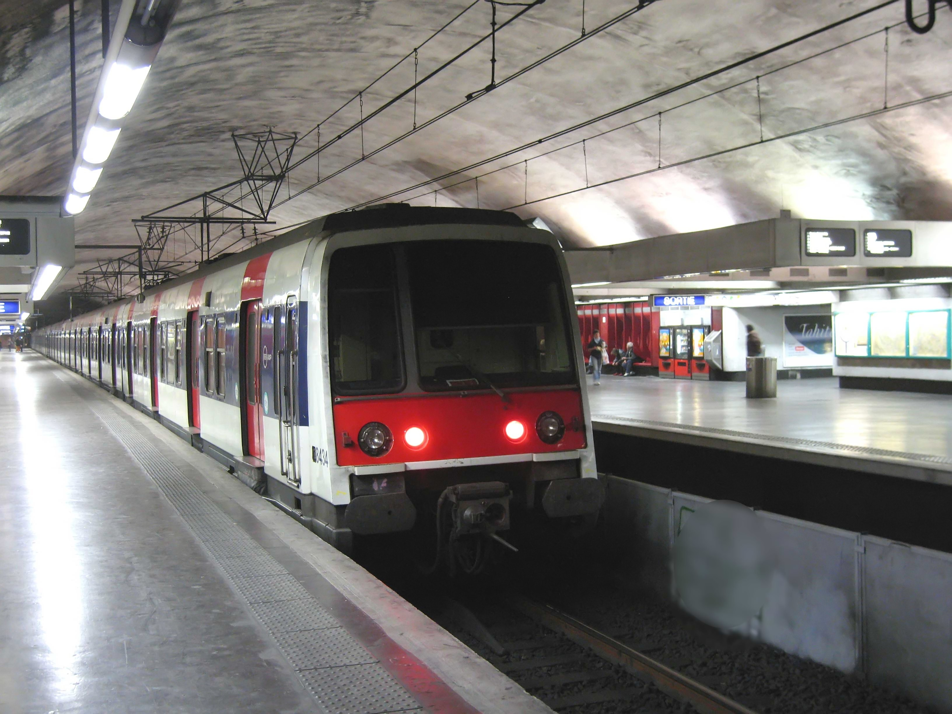 RER Paris, Station Nation, Paris, France